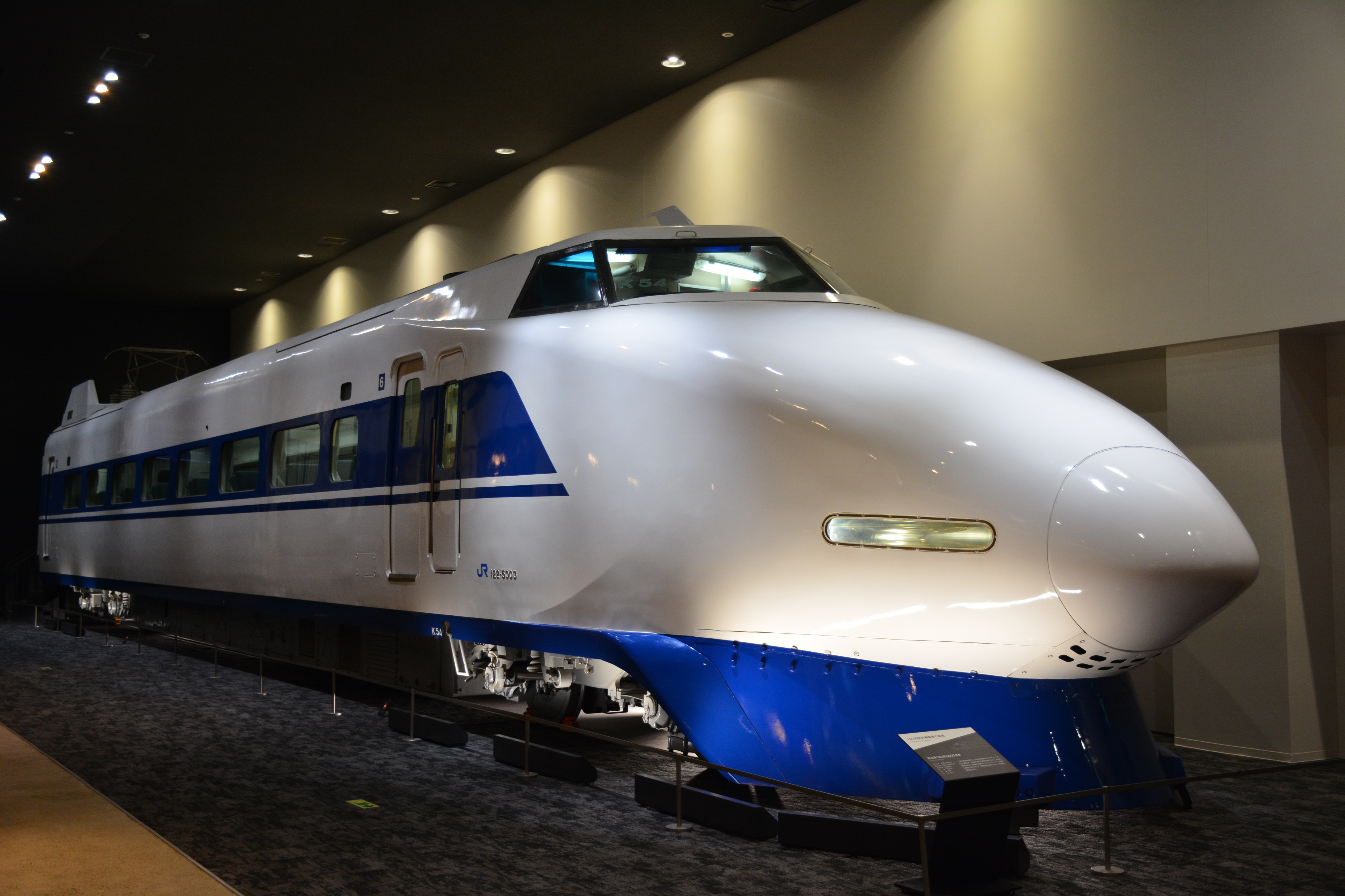 Former JR West 100 series shinkansen car 122-5003 (of set K54) preserved at the Kyoto Railway Museum in Kyoto, Japan